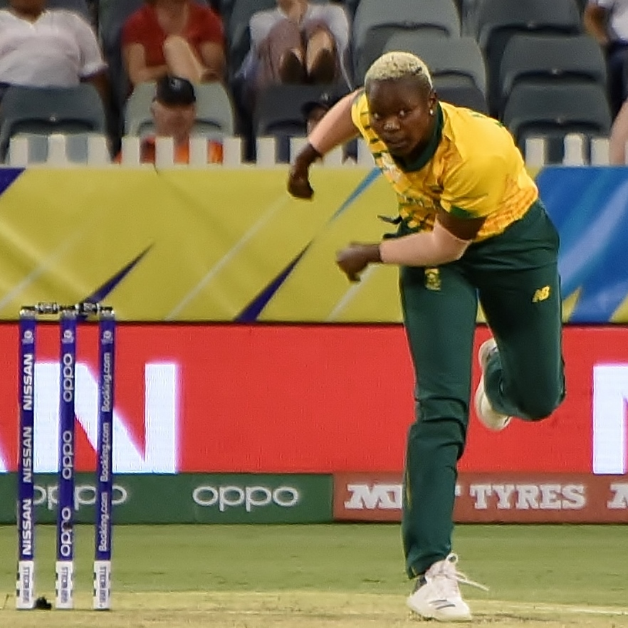 Nonkululeko Mlaba bowling for South Africa against England during their 2020 ICC Women's T20 World Cup match at the WACA Ground in Perth, Australia